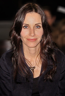 Courteney Cox at New York Fashion Week.